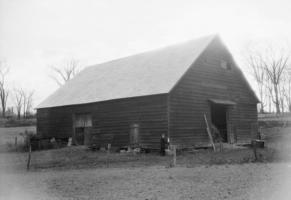 This example of a Dutch barn in Fort Hunter, New York, was constructed in 1734. The photo dates from 1937 and the HABS data that accompanied the photos described the building's condition as rapidly deteriorating. It is highly doubtful this structure still stands.